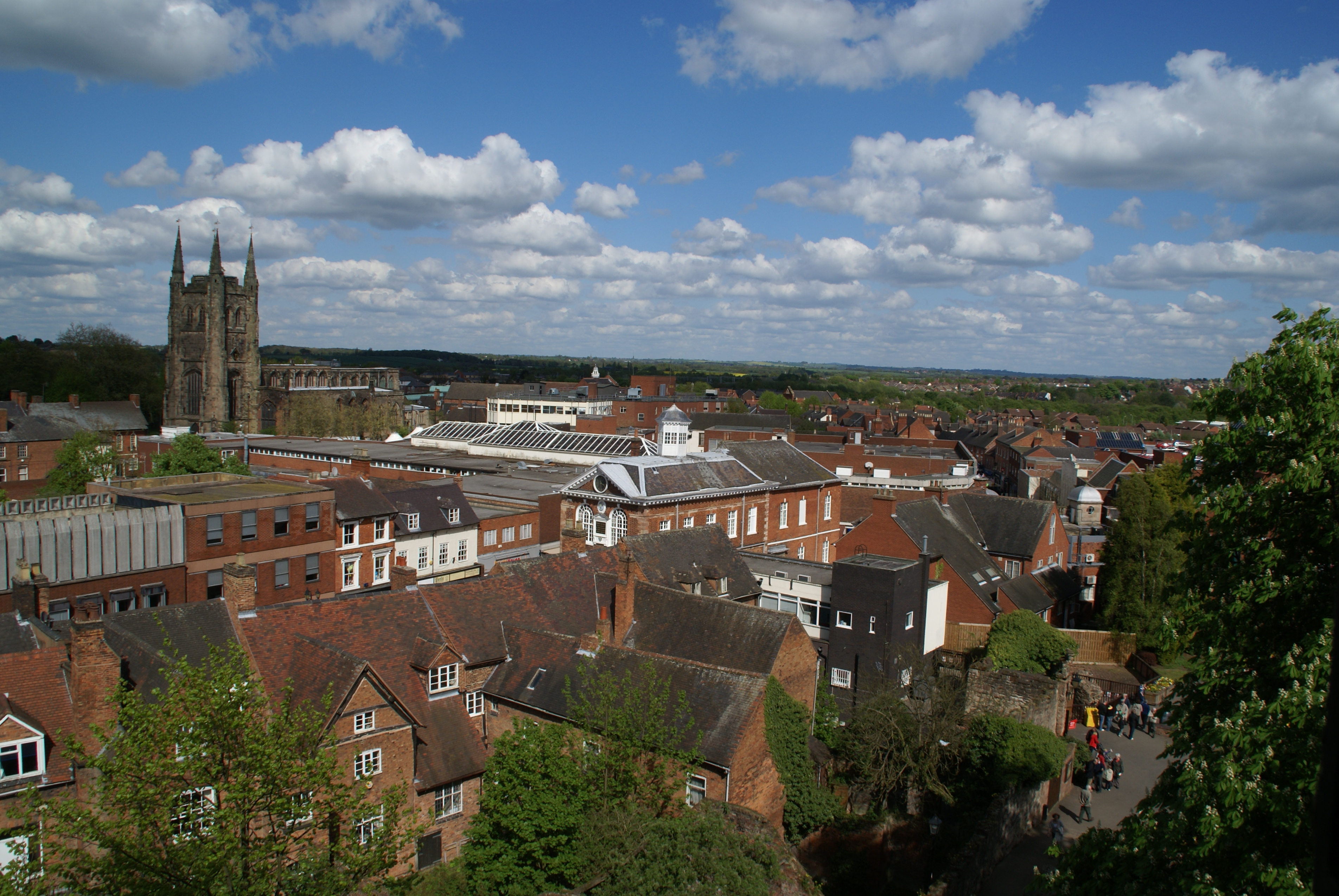 Tamworth (United Kingdom): Panorama